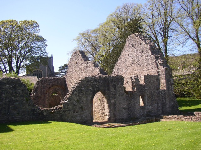 The Old Rectory, Warton. The ruins of a 14C stone house that was the residence and courthouse of the rectors of Warton. In the care of English Heritage. The parish church can be seen in the background